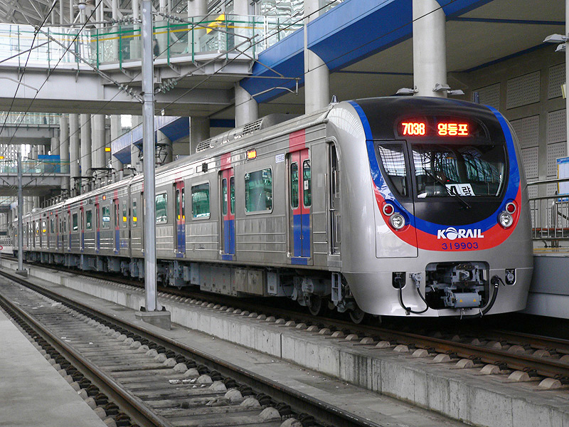 KORAIL 319000series EMU